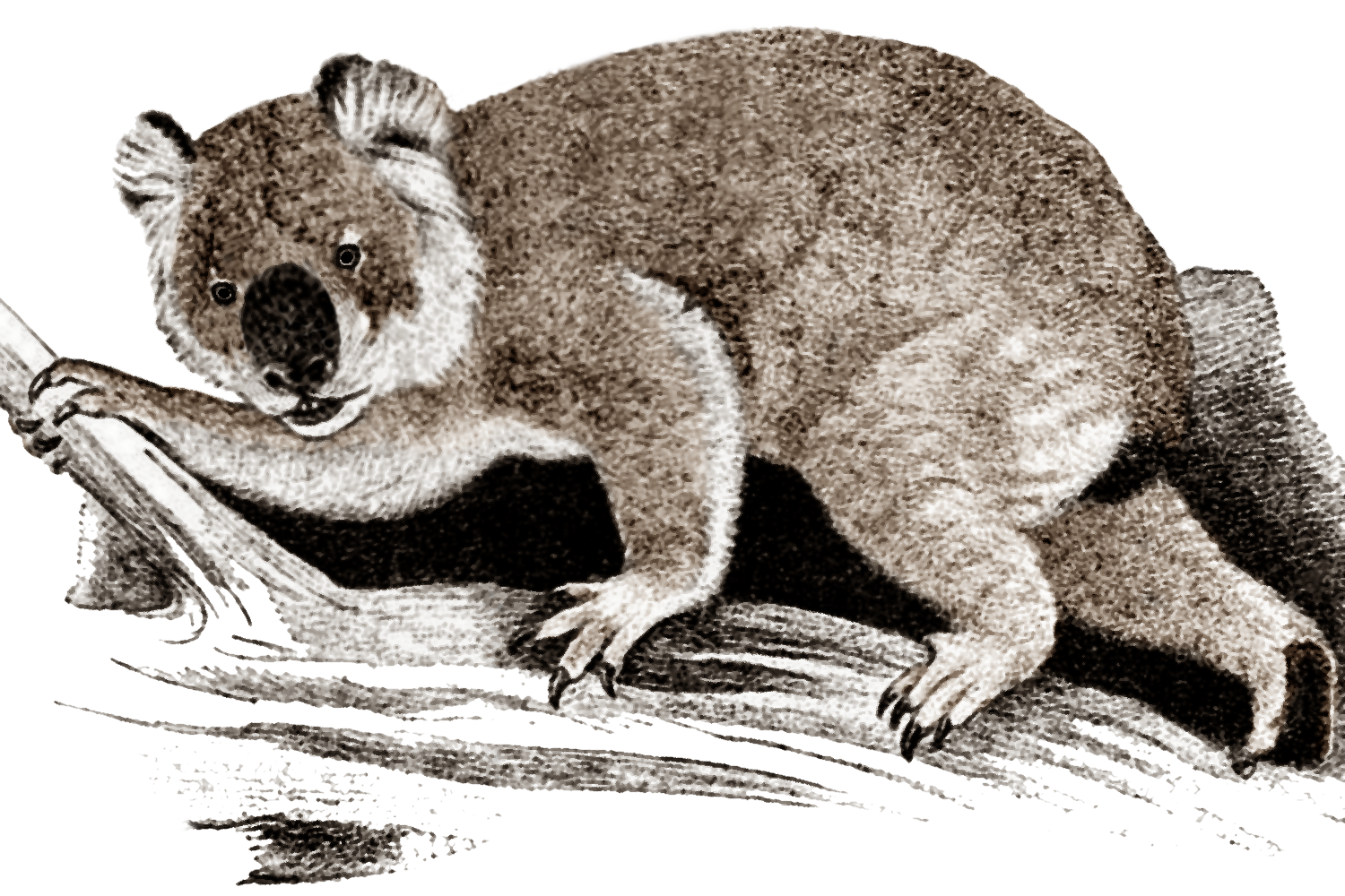 Phascolarctos stirtoni